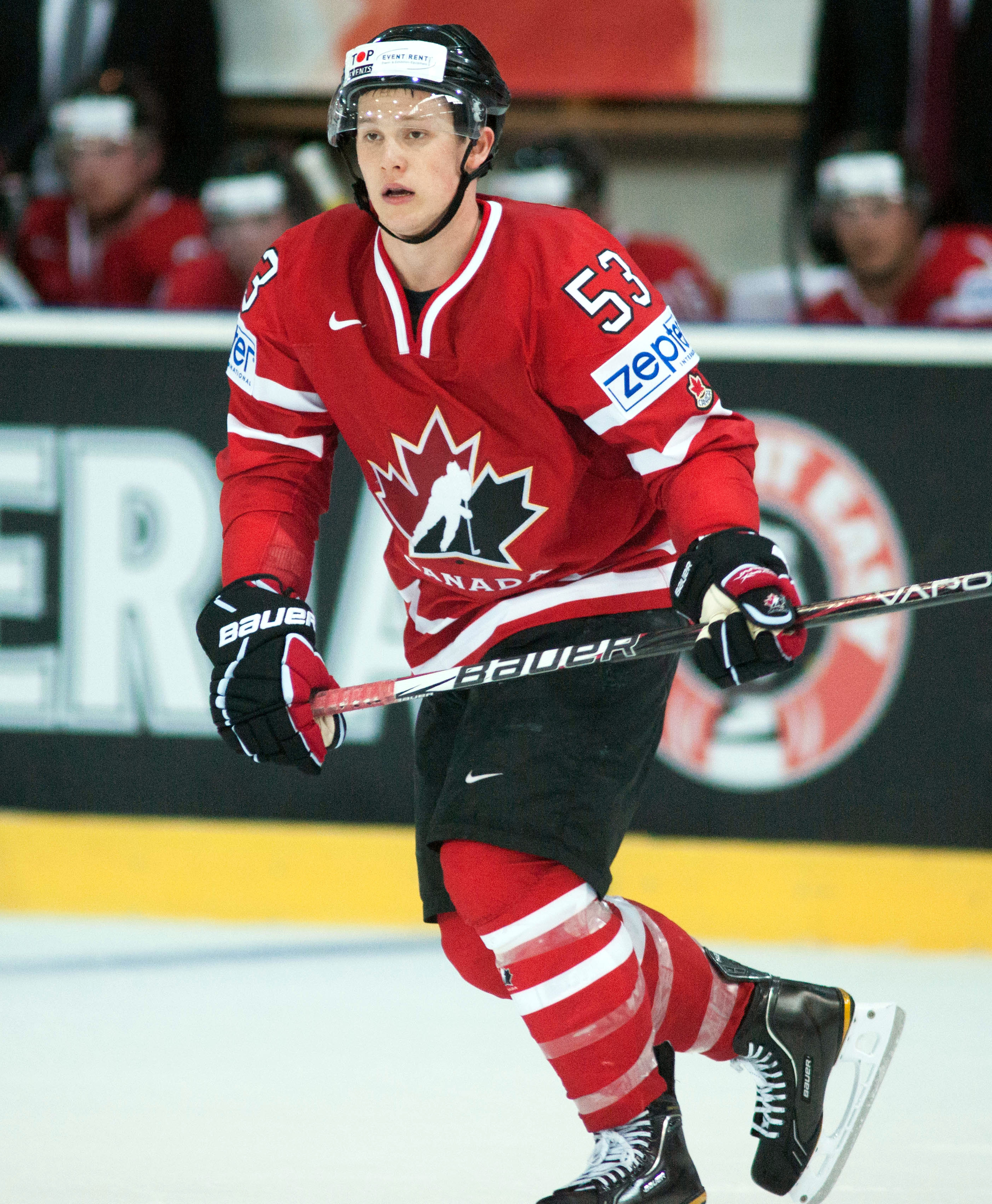 Switzerland vs. Canada, 29th April 2012